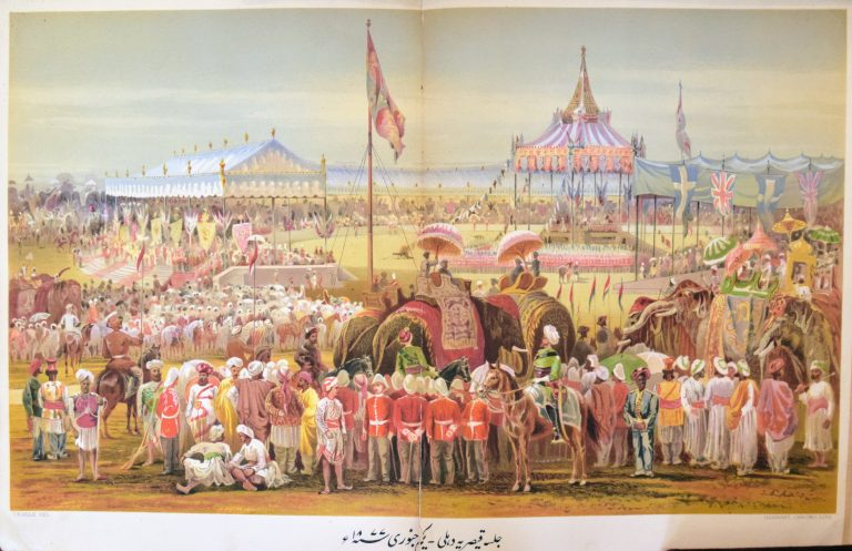 This illustration depicts some of the shān-o-shaukat (pomp and show) of the imperial assemblage in Delhi in January 1877. From Piyare Lal’s “Tārīk̲h̲-i jalsah-yi Qaiṣarī” (1883), an Urdu translation of James Talboys Wheeler’s “The History of the Imperial Assemblage at Delhi (1877). (South Asian Collection, Asian Division).